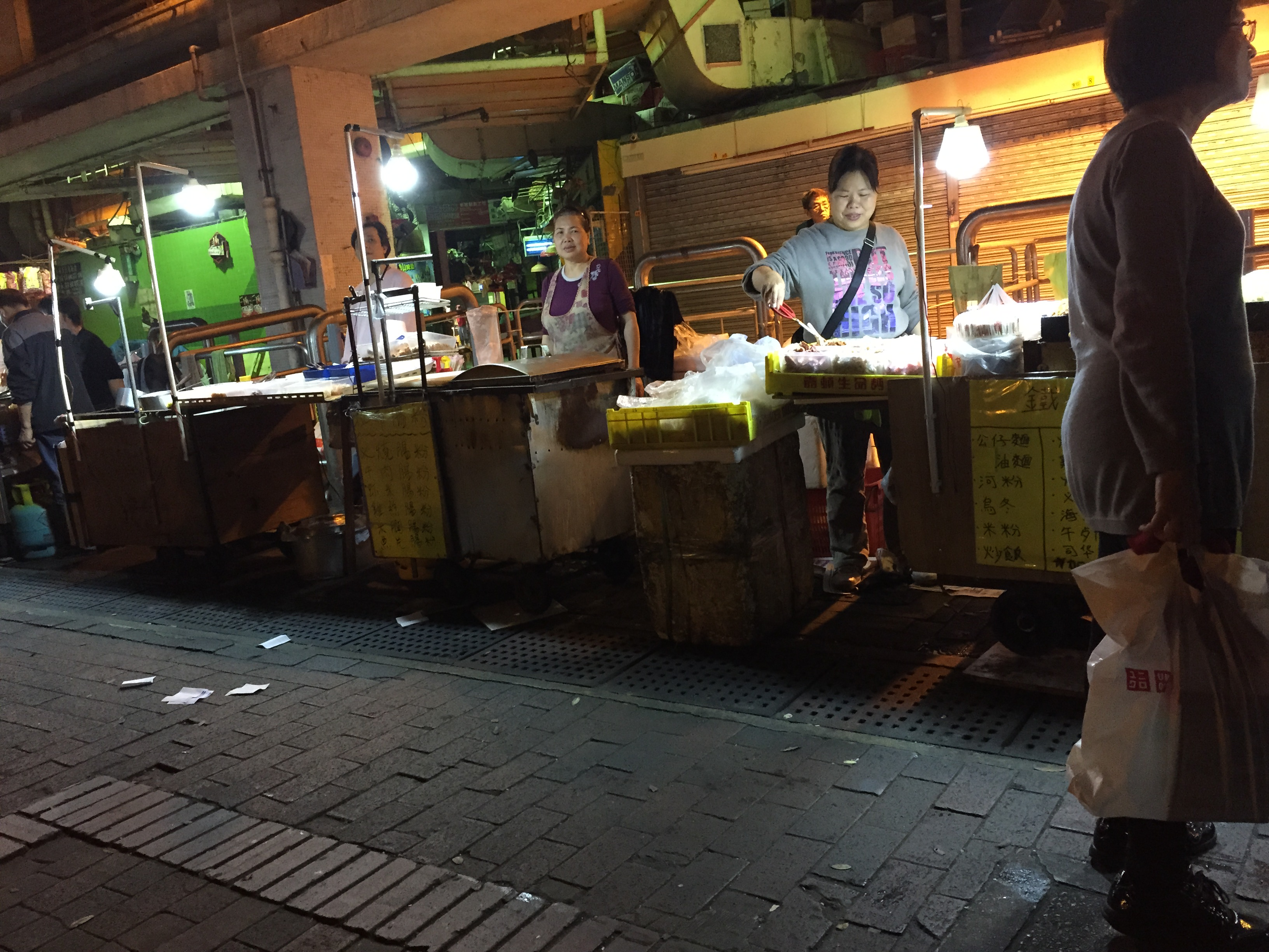 A night market in Tuen Mun, took in Tuen Mun, 2015